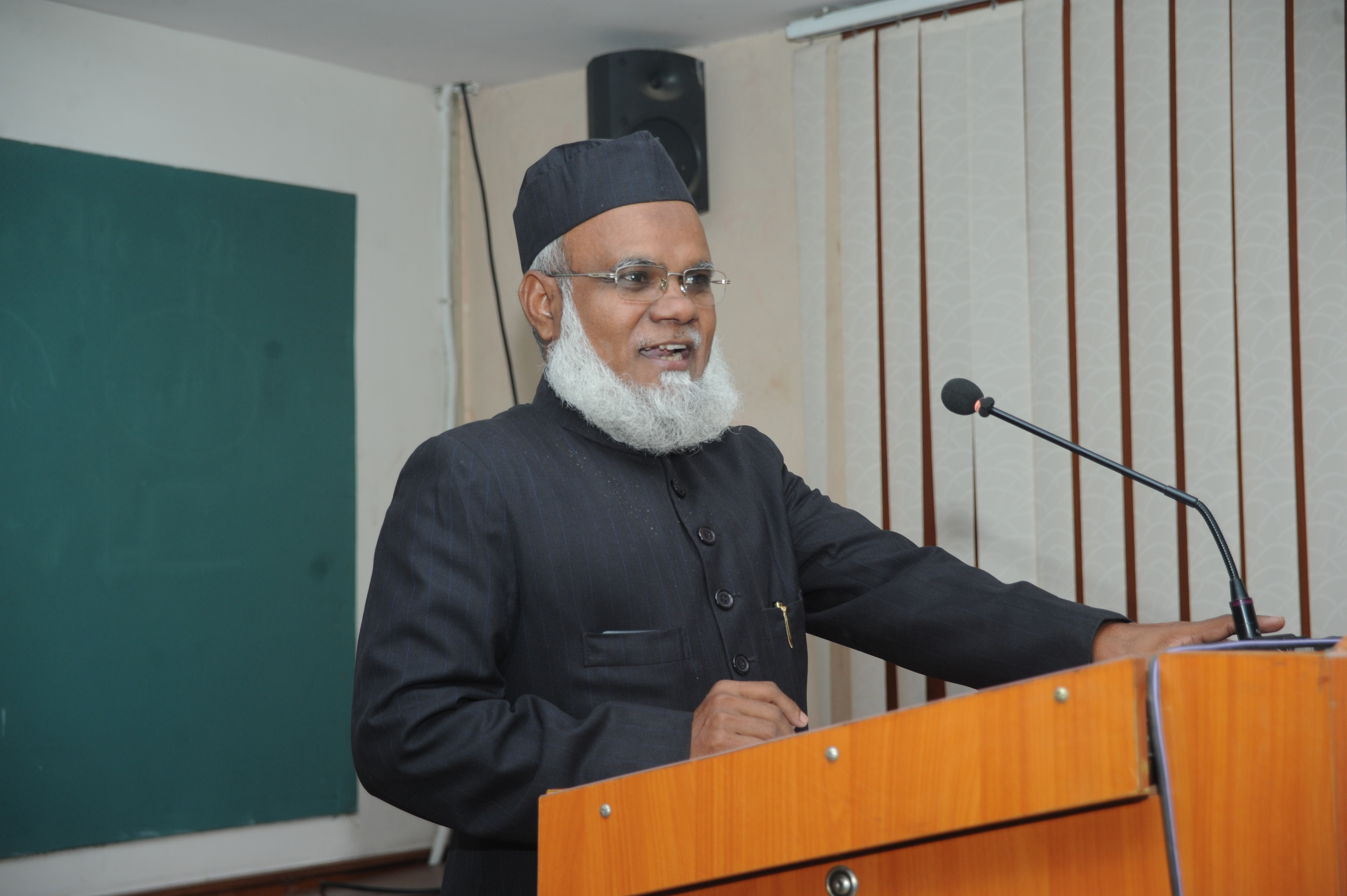 Dr.Raziul Islam Nadvi in a seminar